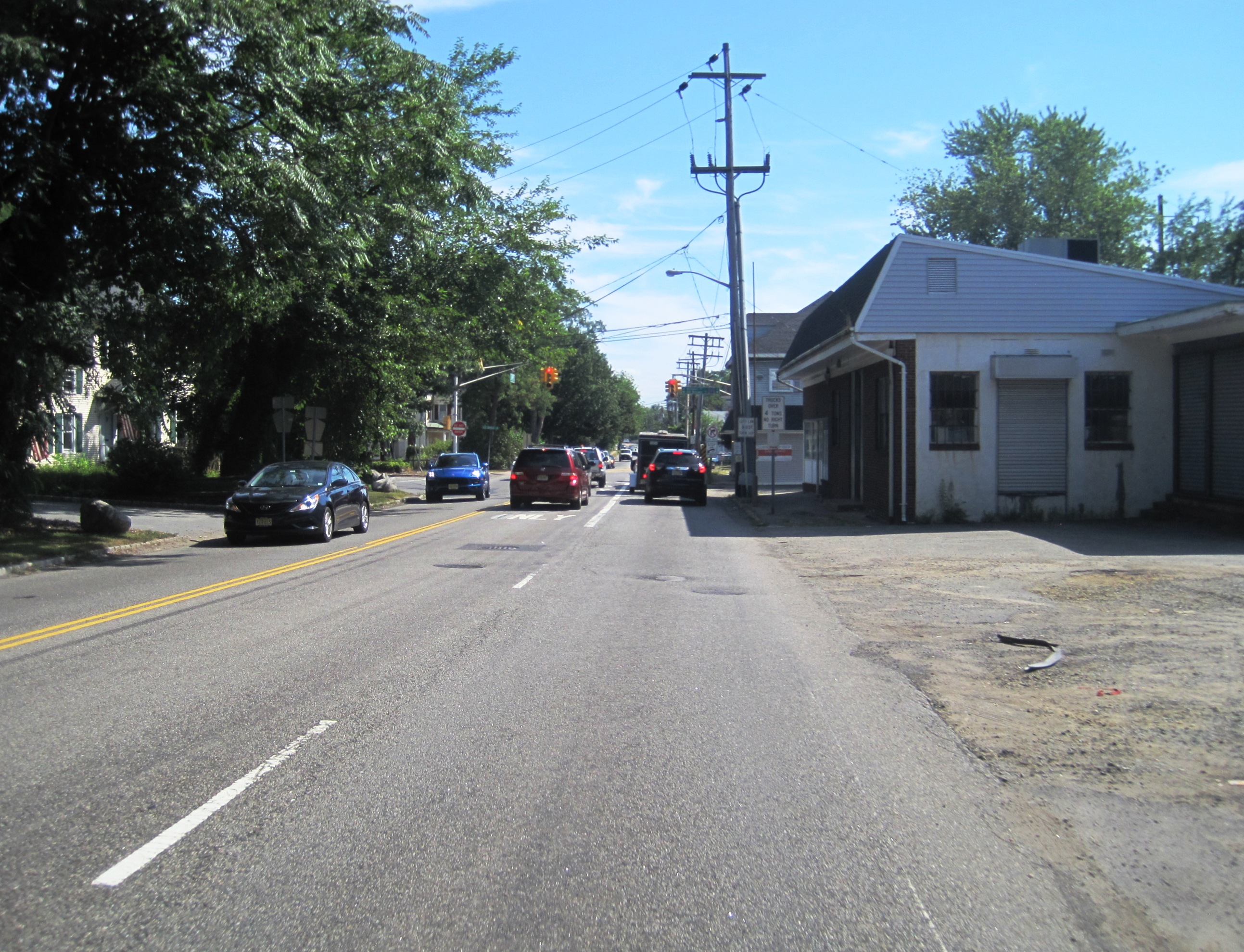 Photo of East Spotswood, New Jersey, an unincorporated community within East Brunswick Township and Old Bridge Township. Photo taken on northbound Main Street (County Route 615) approaching Old Bridge Turnpike / Old Matawan Road (CR 527) in East Brunswick.